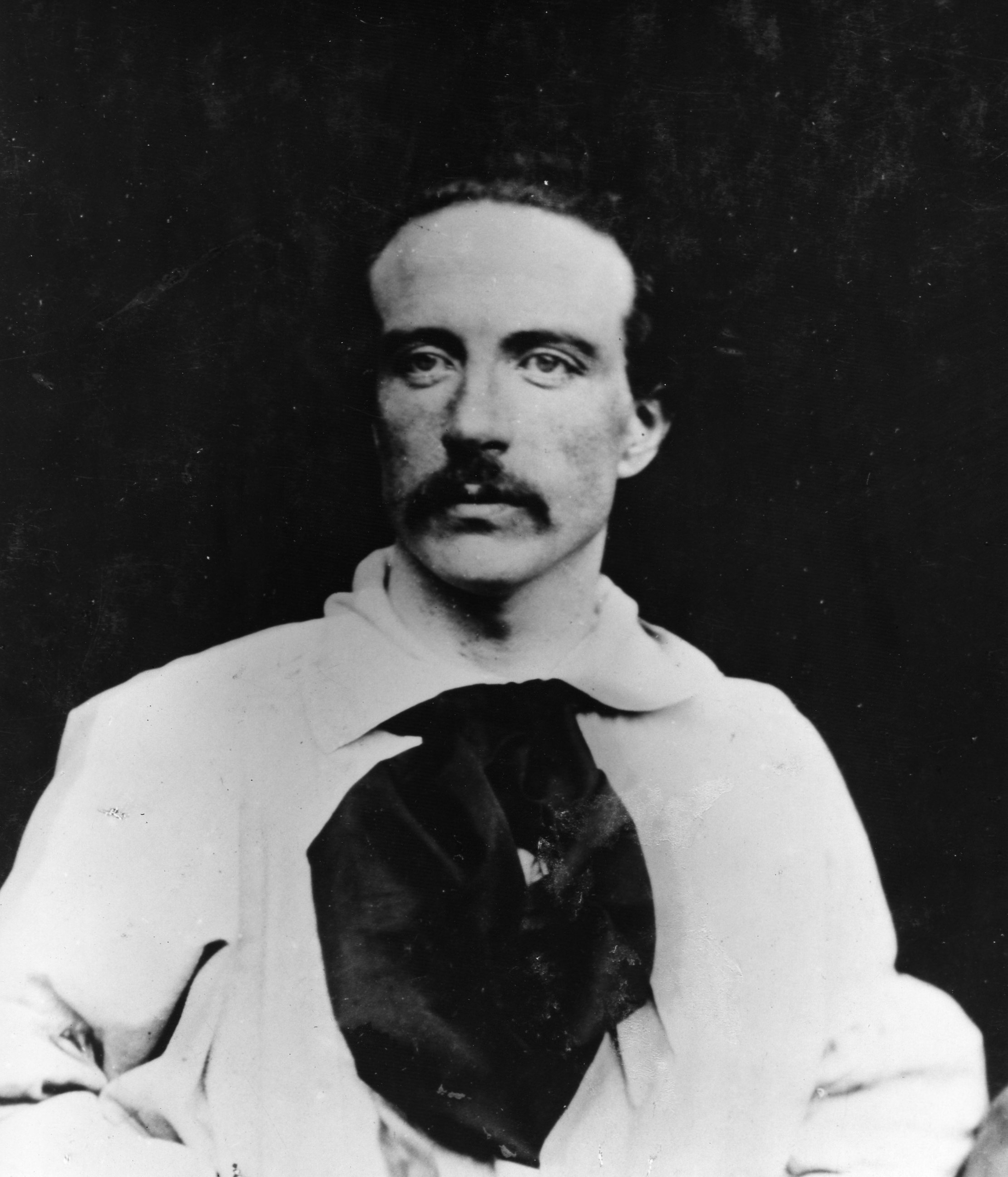 Contemporary photograph of Frederick Lee Bridell in his studio.